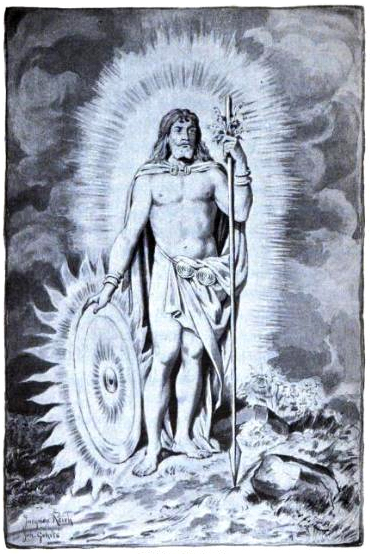 Illustration of Baldr by Jacques Reich originally with the caption "Balder the Good."